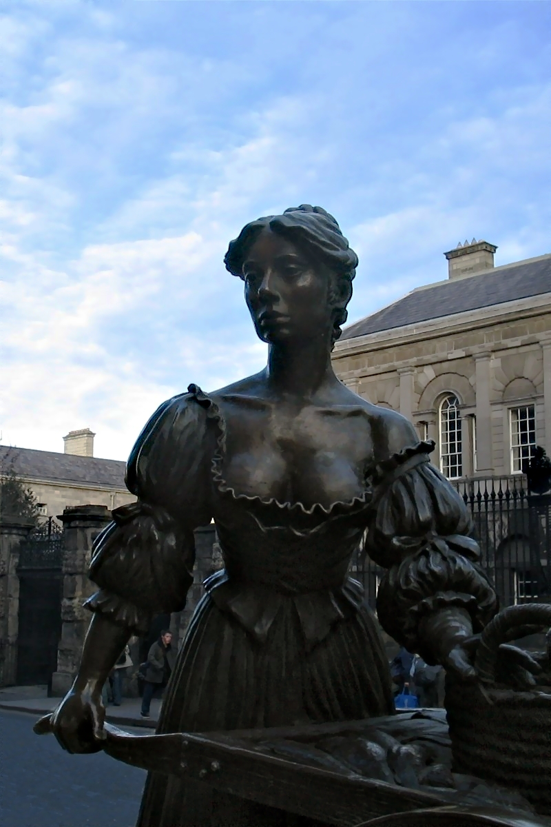 Molly Malone statue